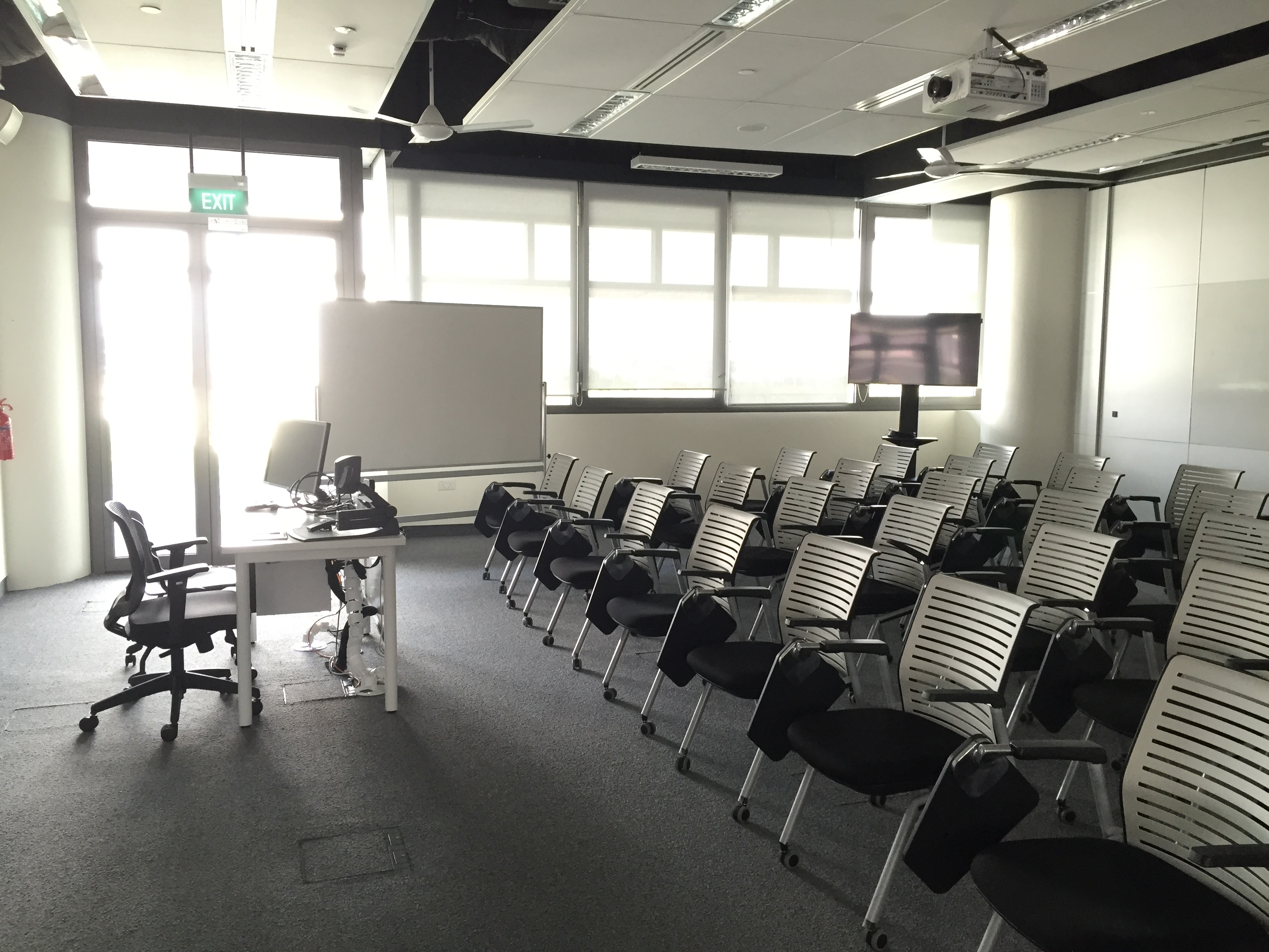 A seminar room of the Singapore University of Technology and Design.